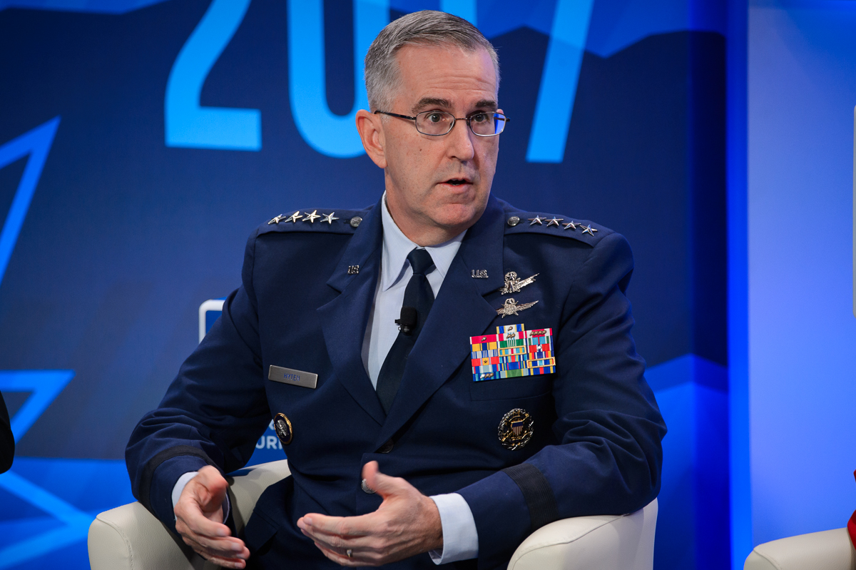 Commander of United States Strategic Command, General John Hyten, speaks on the plenary session “Nukes: The Fire and the Fury.”